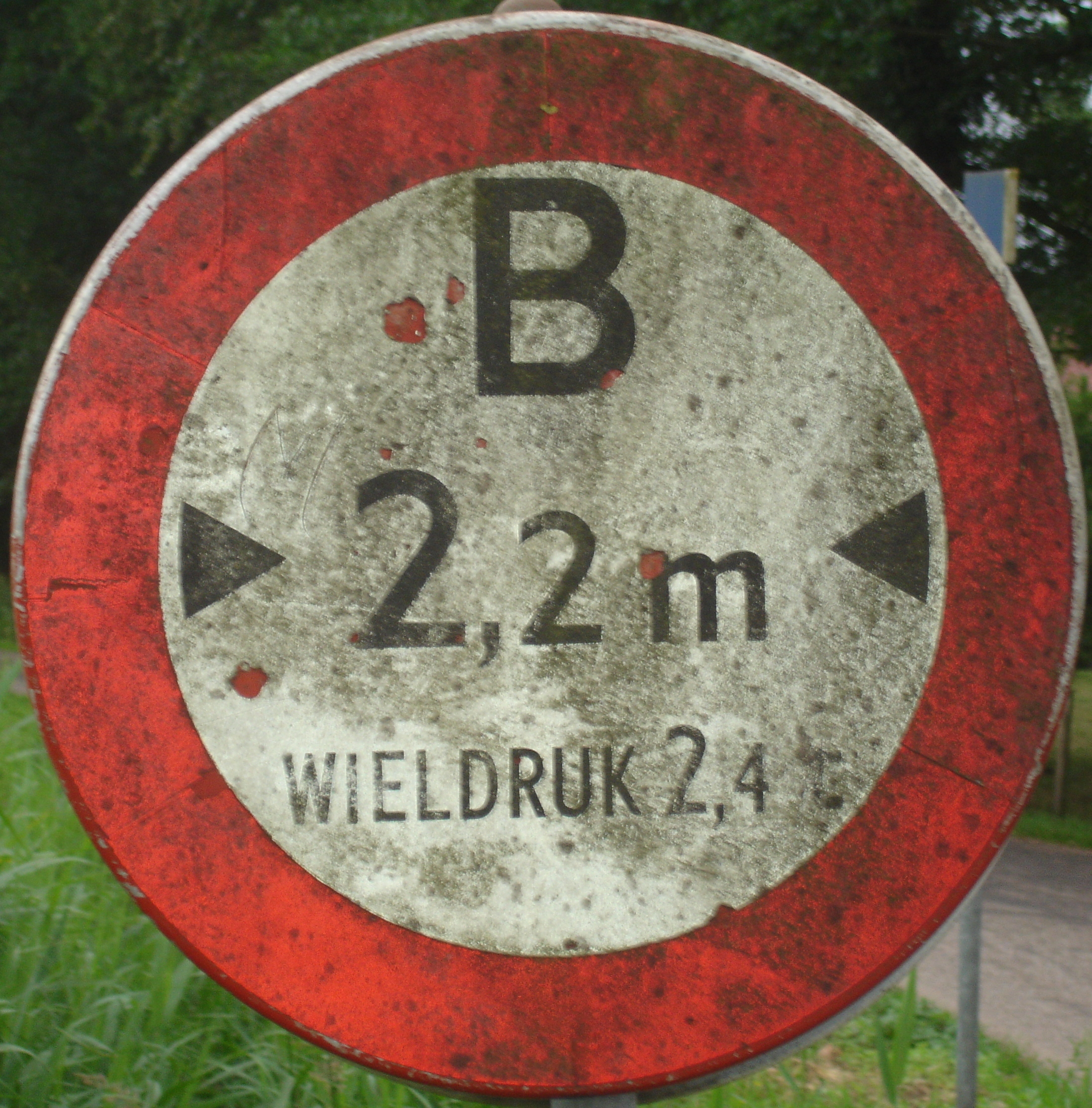 Obsolete Dutch traffic sign